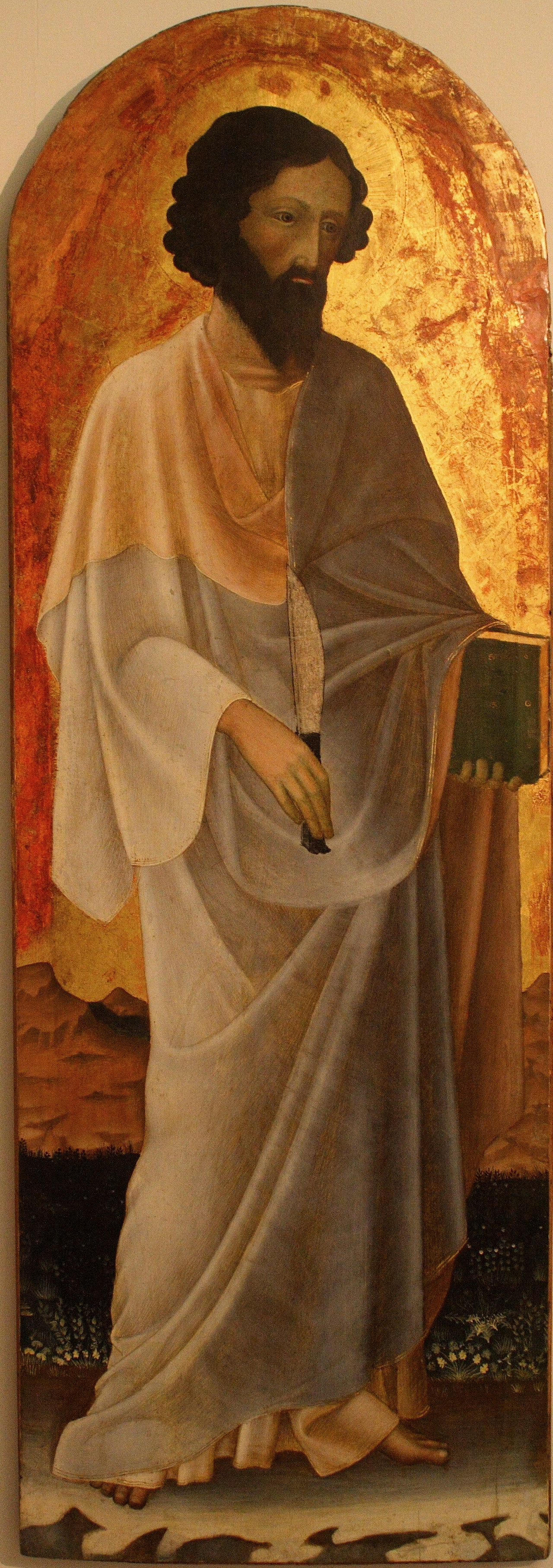 St. Bartolomew